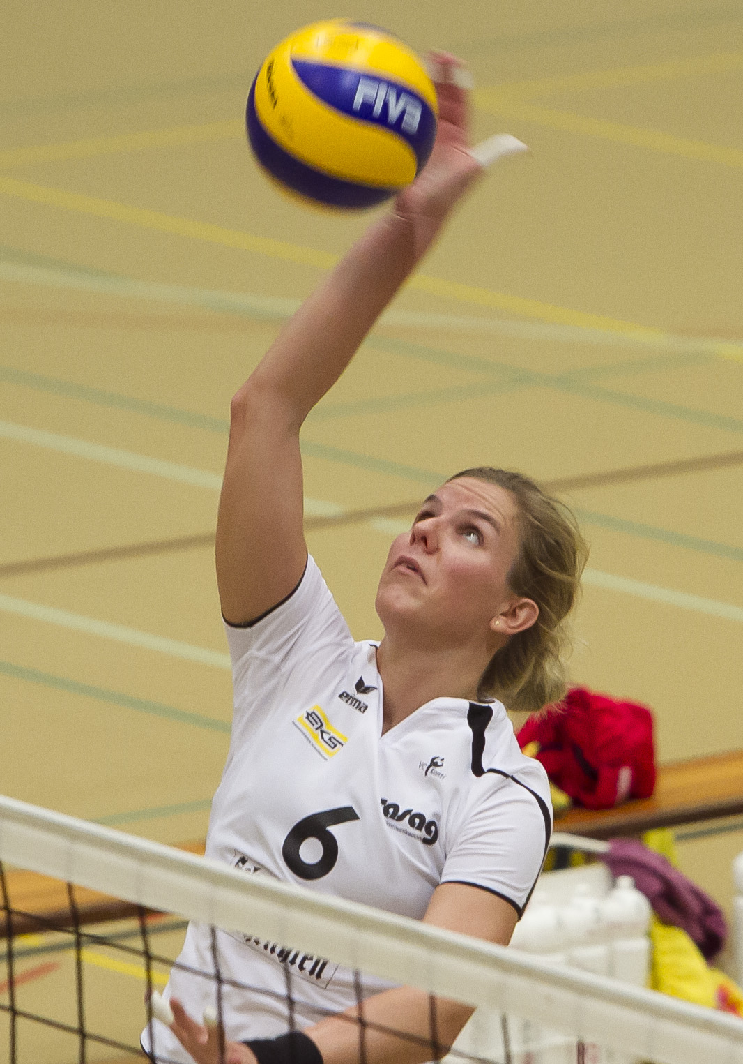 Volleyball player Grit Lehmann attacks for kanti schaffhausen